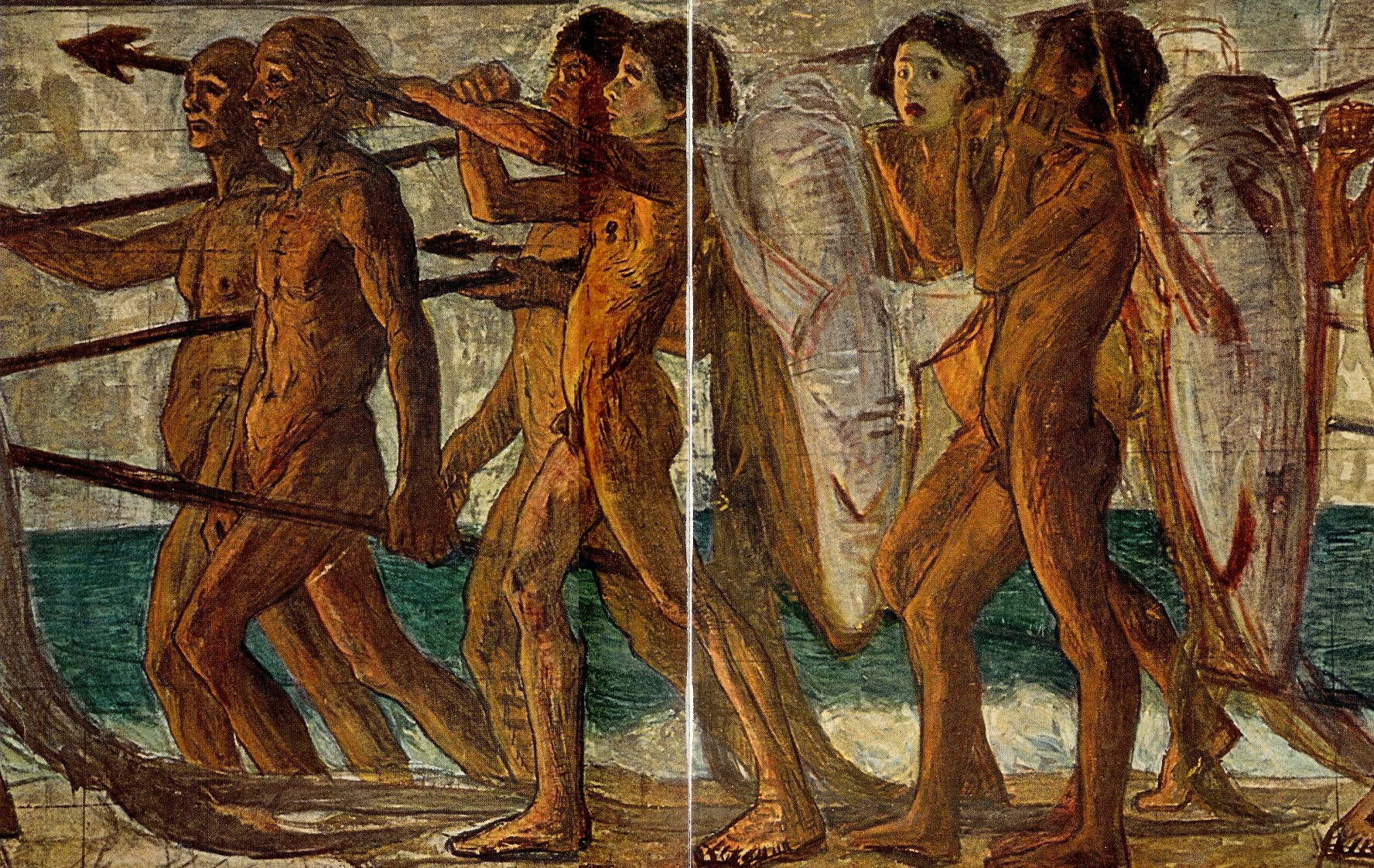 Aoki "Fihermen"